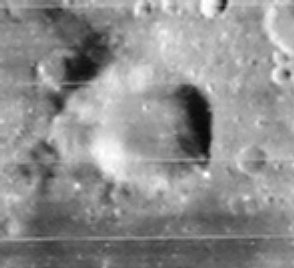 Nunn lunar crater - Lunar Orbiter IV image